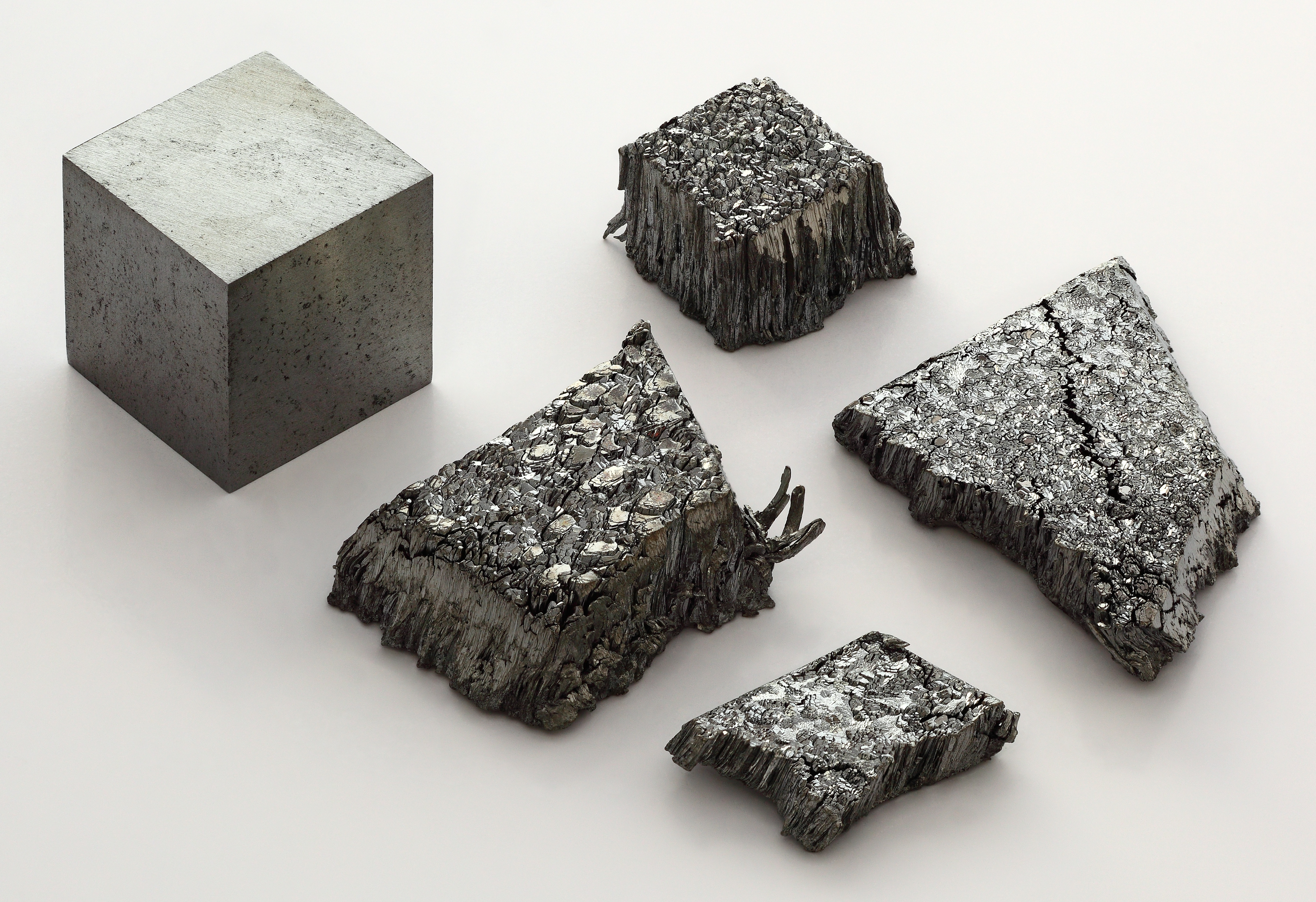 Lutetium, sublimed-dendritic, high purity 99.995 % Lu/TREM. As well as an argon arc remelted 1 cm3 lutetium (99,9 %) cube for comparison.